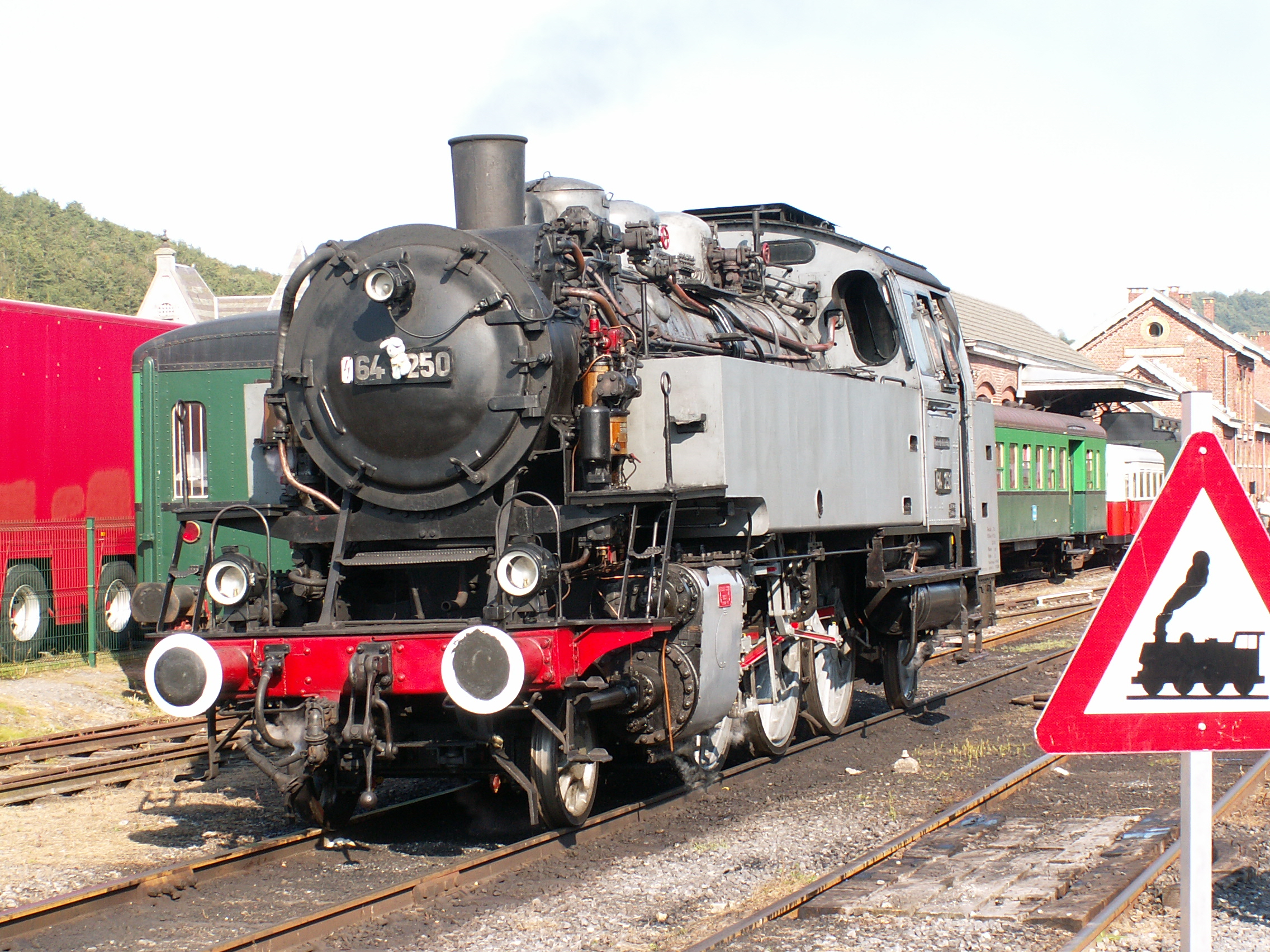 Steam loc 64 250 from the german DB public railways painted in black/gray "photo" scheme as preserved by the CFV3V (Chemin de fer à vapeur des trois vallées) heritage railway in Treignes (Belgium) on the yearly steam festival.